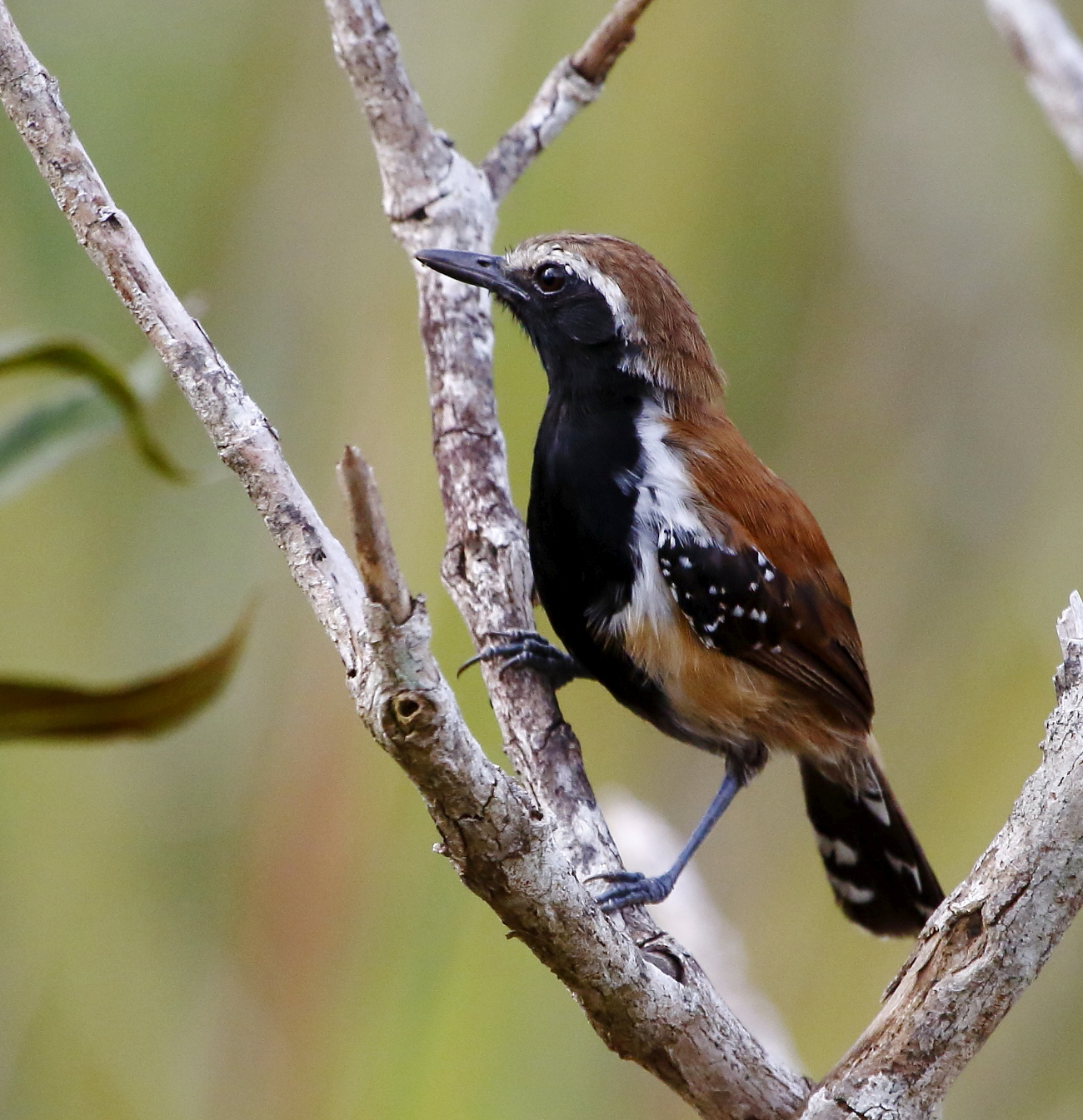 Rusty-backed antwren (male) at Dourado - SP - Brazil